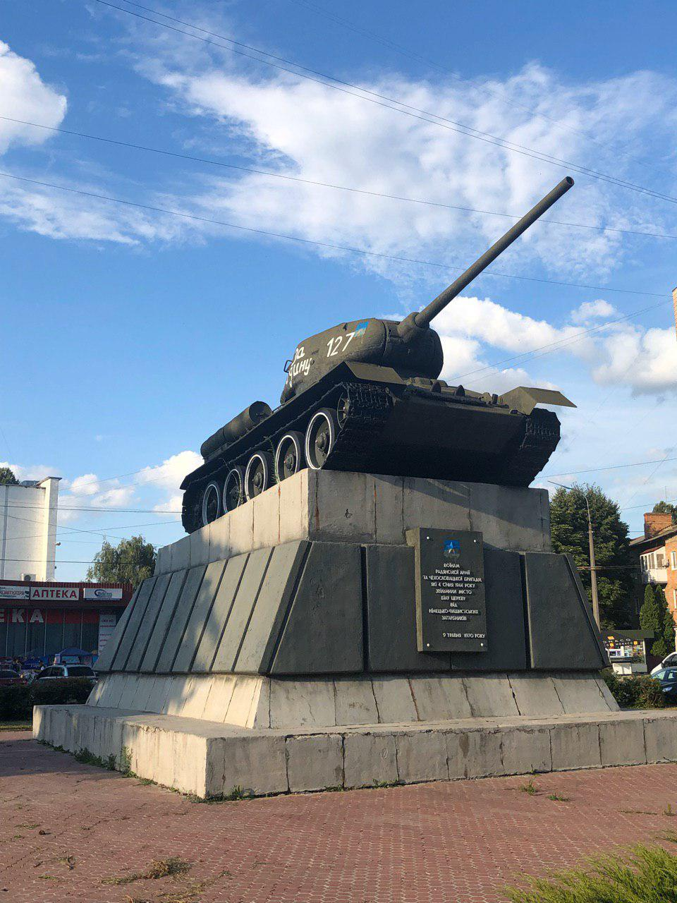 Т-34 Belaya Tserkov